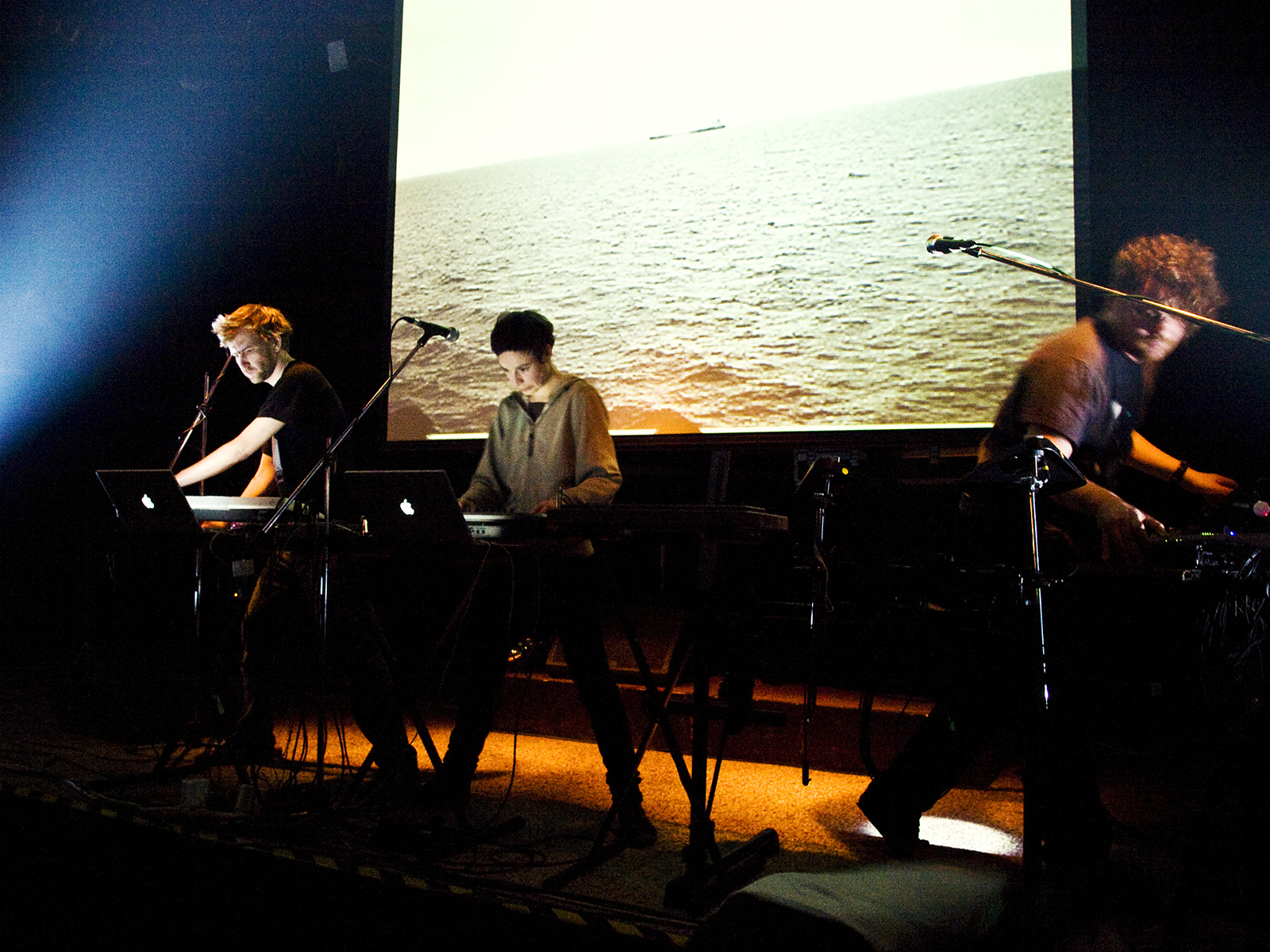 Czech band MIDI LIDI performing on 12th March 2010 in Music Club Kotelna, Litomysl, CZ.